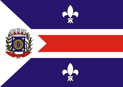 Official flag of Santo Amaro